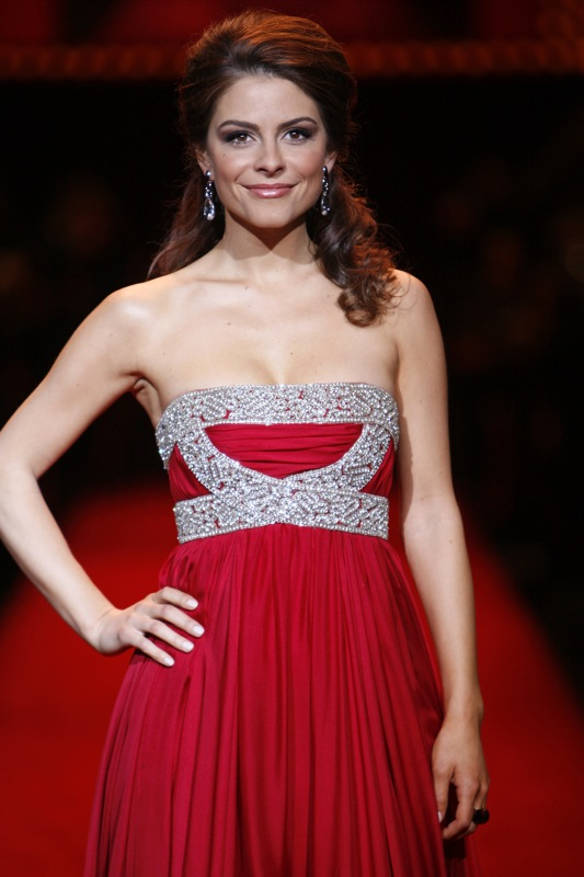 Maria Menounos modeling at The Heart Truth Fashion Show 2008